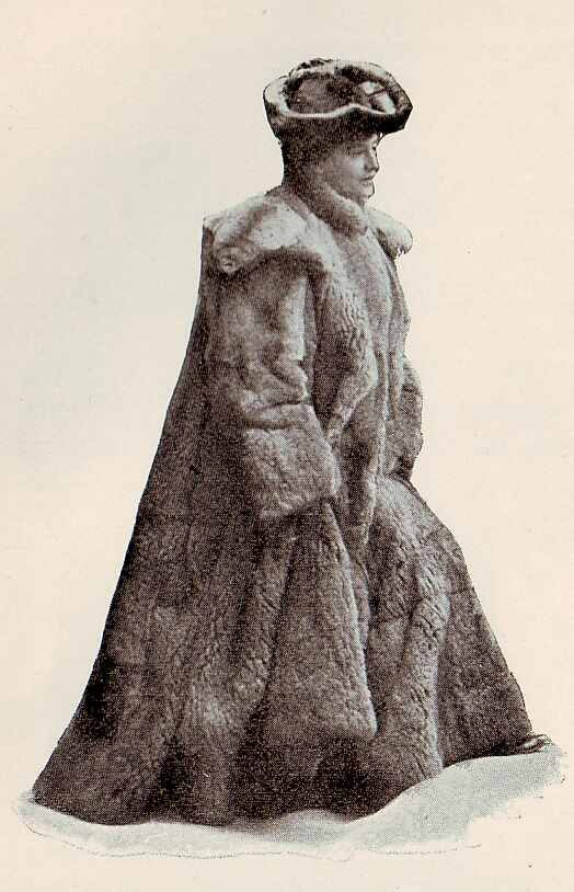 Suslik (ground squirrel) fur coat